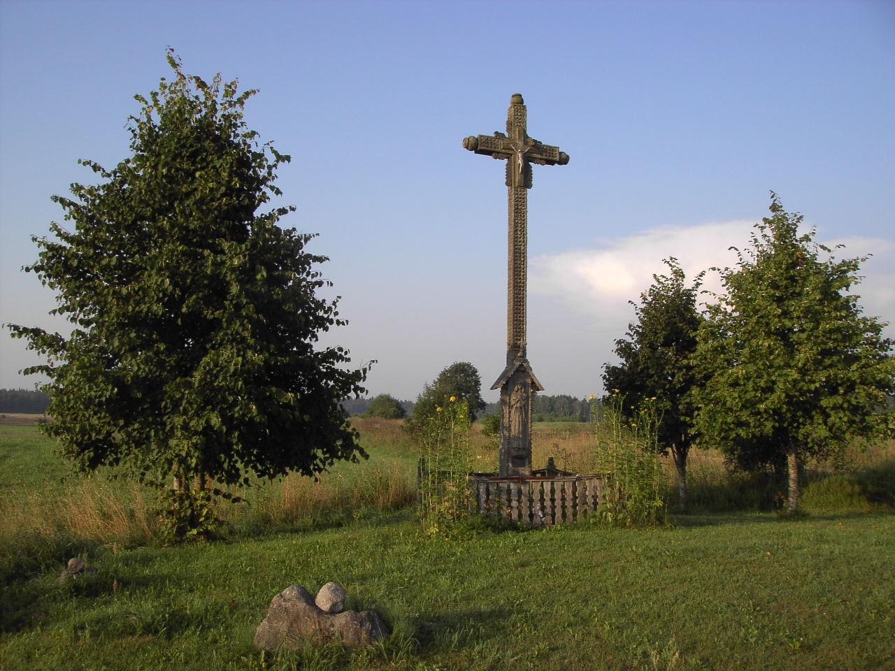 Wayside cross near Ažvinčiai, Ignalina district, Lithuania